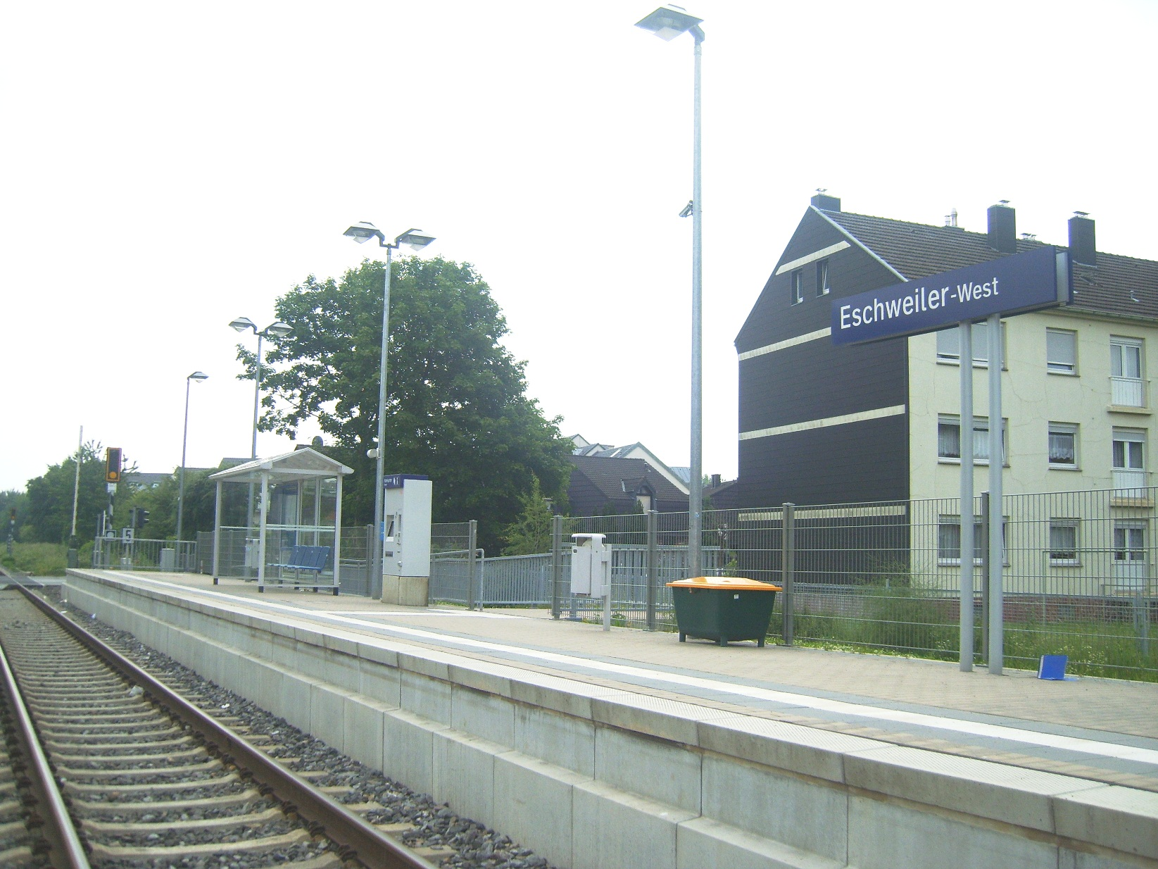 Train stop of the Euregiobahn on the Eschweiler Valley Railway in Eschweiler-West